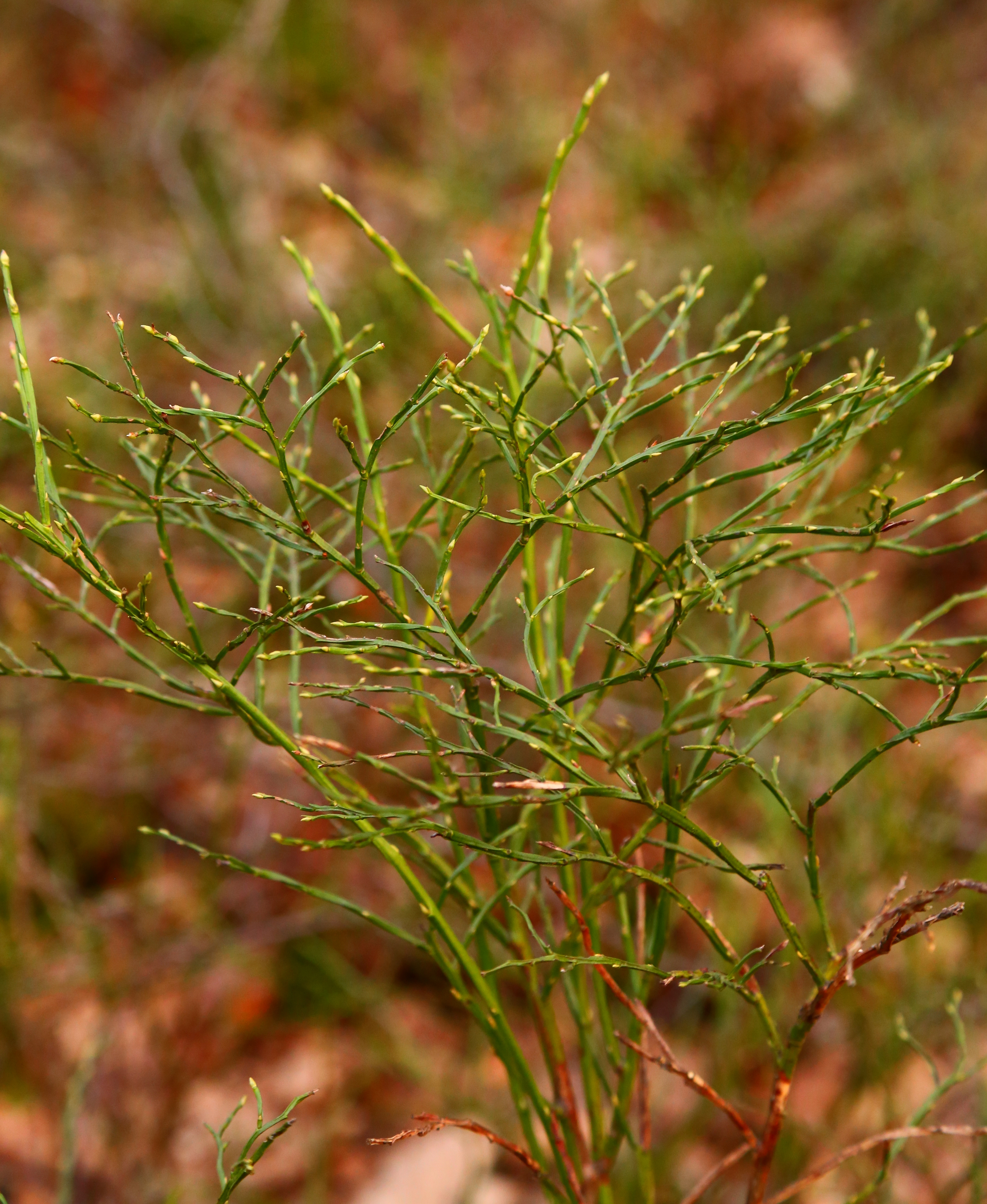 Common Bilberry (Vaccinium myrtillus) shrub before foliation in a forest on the Querenberg in Mettingen, Kreis Steinfurt, North Rhine-Westphalia, Germany.